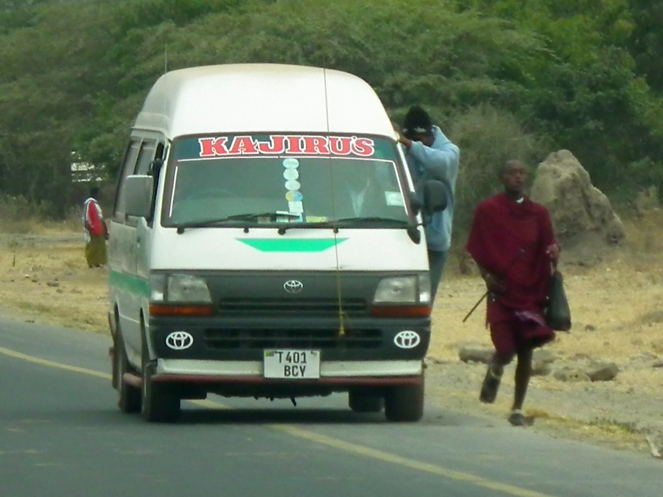 Toyota HiAce in Tanzania